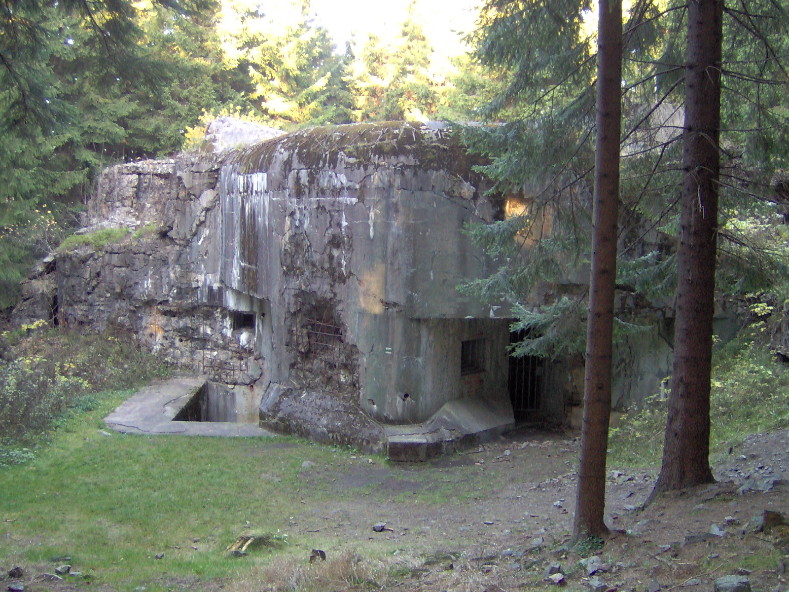 K-S 24 Libuše infantry casemate, Bouda fortress, Ústí nad Orlicí District, Czech Republic